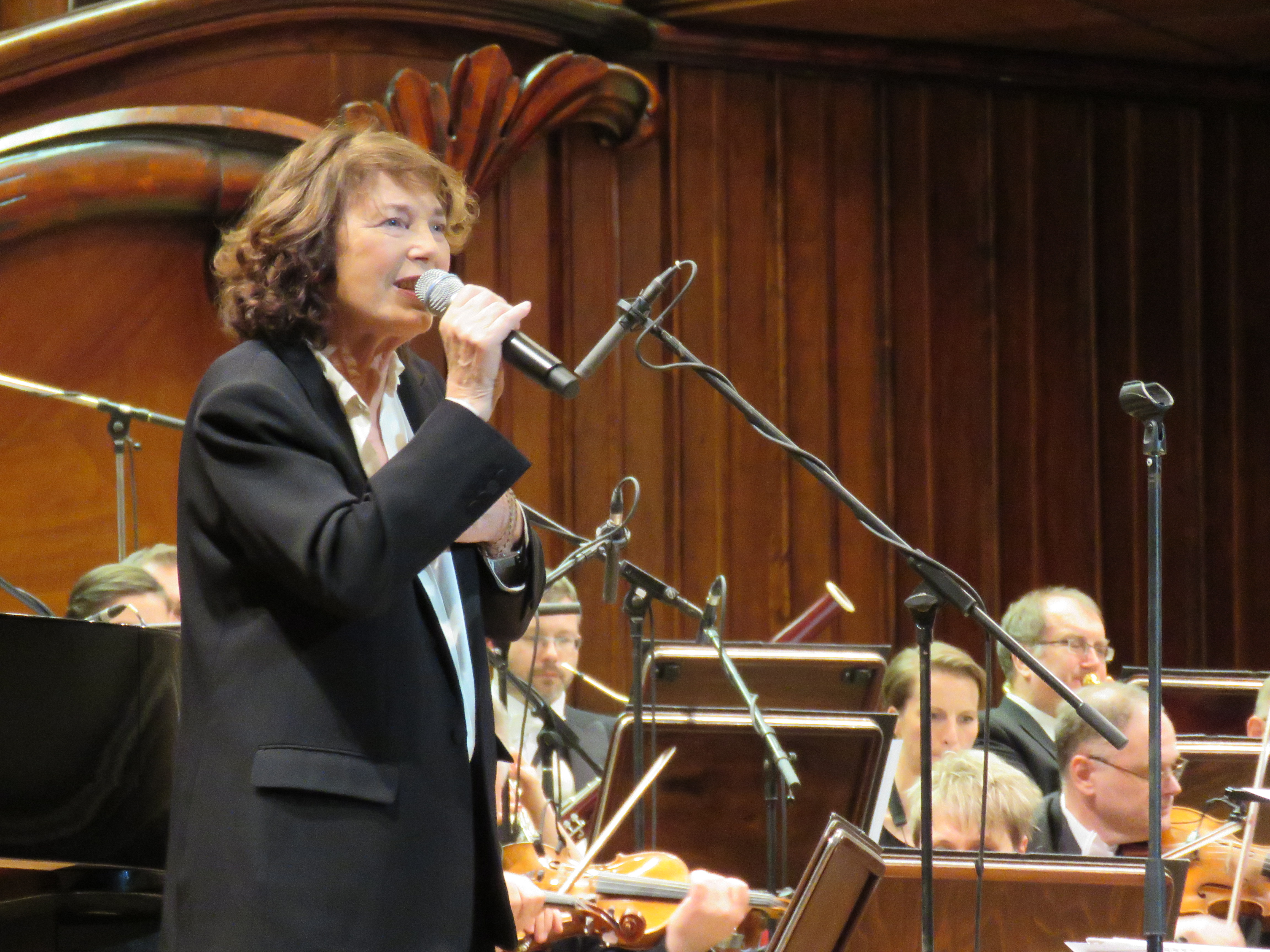 Jane Mallory Birkin OBE (born 14 December 1946) is an English actress, singer and film director. She was born to David Birkin, a Royal Navy officer and Judy Campbell, an actress in Noel Coward musicals. Birkin's brother is the screenwriter/director Andrew Birkin, and her daughter is Charlotte Gainsbourg. First cousin of her father was Freda Dudley Ward, a mistress of Edward VIII while he was Prince of Wales.